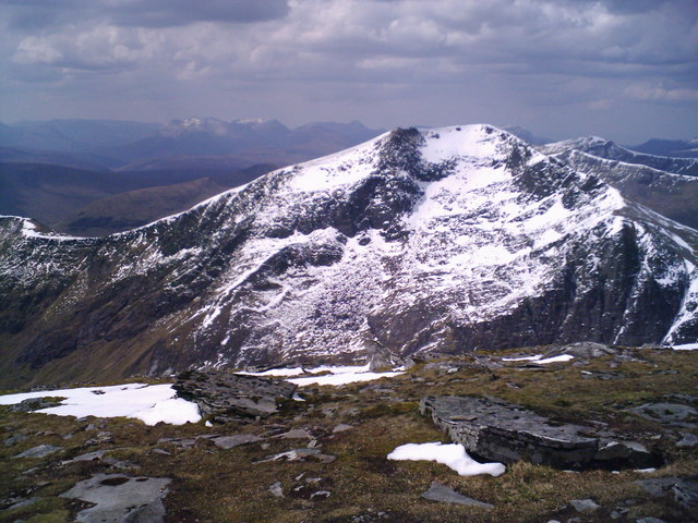 Sgurr Mor Summit, looking WSW. Taken on 12-May-2005 from the 1108m high Sgurr Mor Summit (NS1) looking WSW over Sgurr-Nan-Clach Geala to the mountains of Wester Ross - G4YSS.